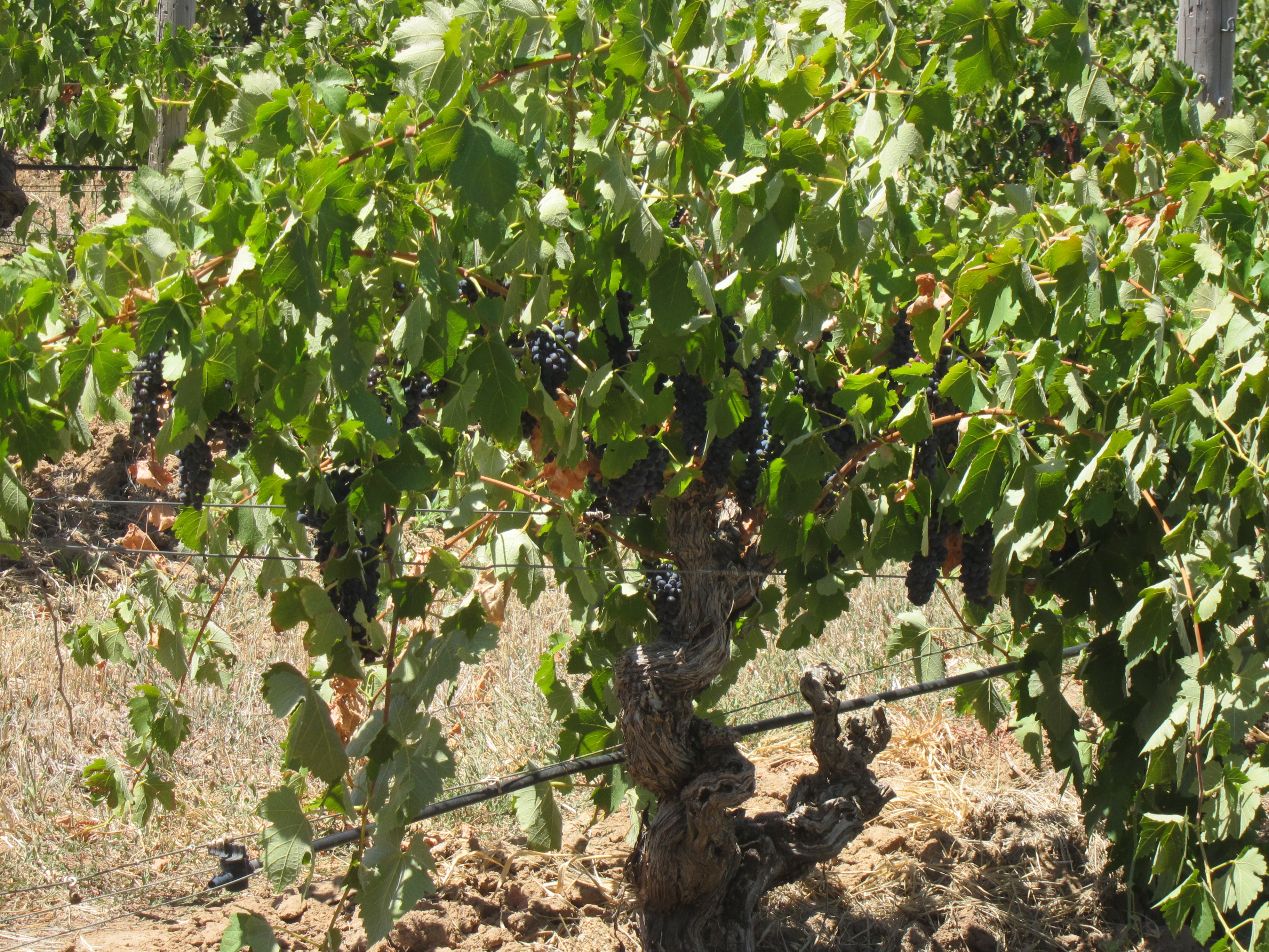 Photo taken in Torbreck's Les Amis Vineyard in the Barossa Valley. These dry farmed vines were planted in 1901.